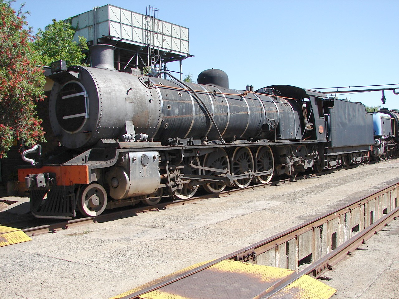 SAR Class 15AR no. 1850 with Type MT2 tender no. 2723 (ex Class 19D no. 2723) Builder's Number: BP 5966 Location: Bloemfontein, Free State